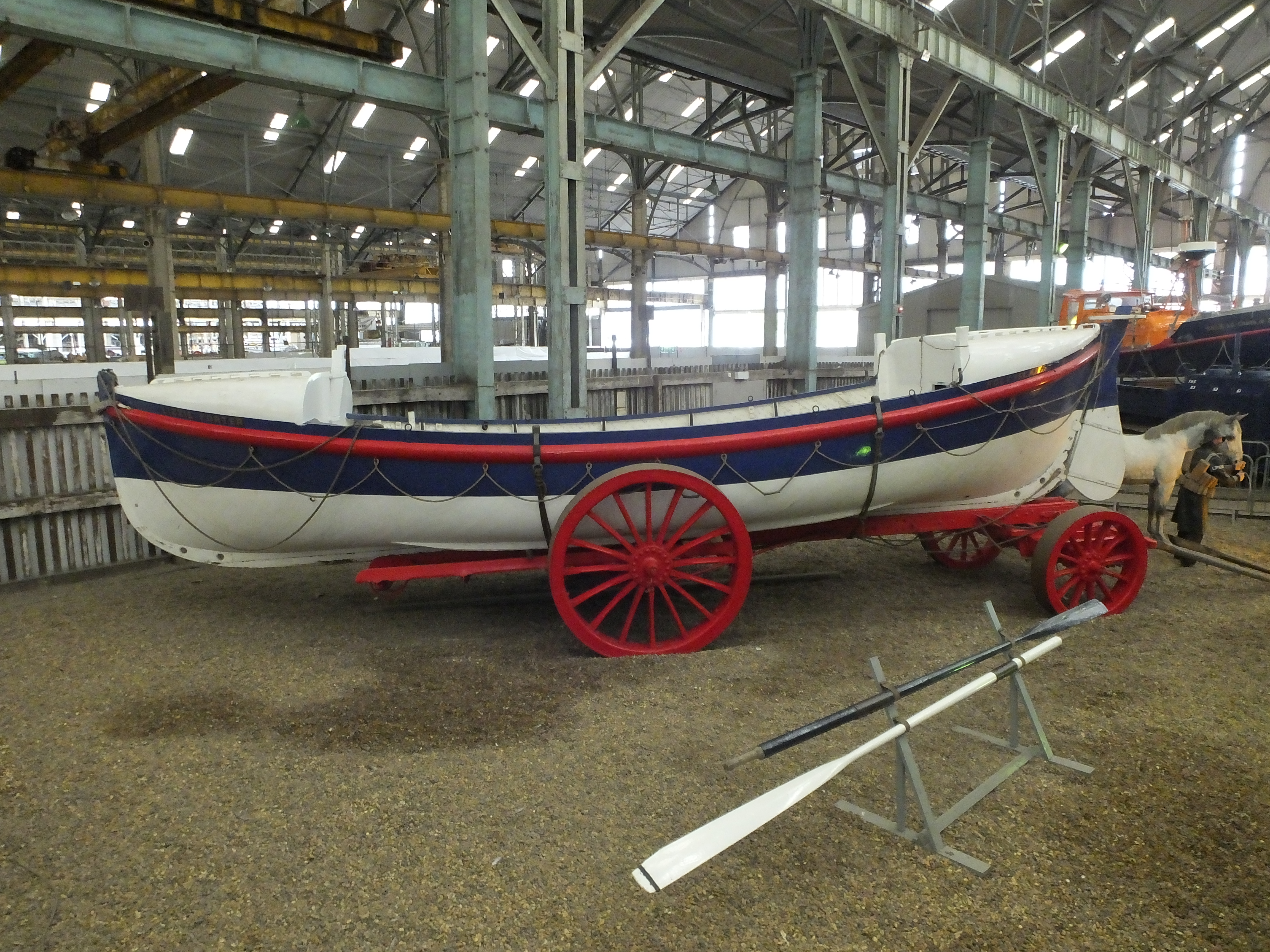 The RNLI Historic Lifeboat Collection at the Historic Dockyard in Chatham, Kent, is the UK’s largest collection of historic lifeboats. [ RNLI Historic Lifeboats in Chatham iLizzie Porter Holy Island